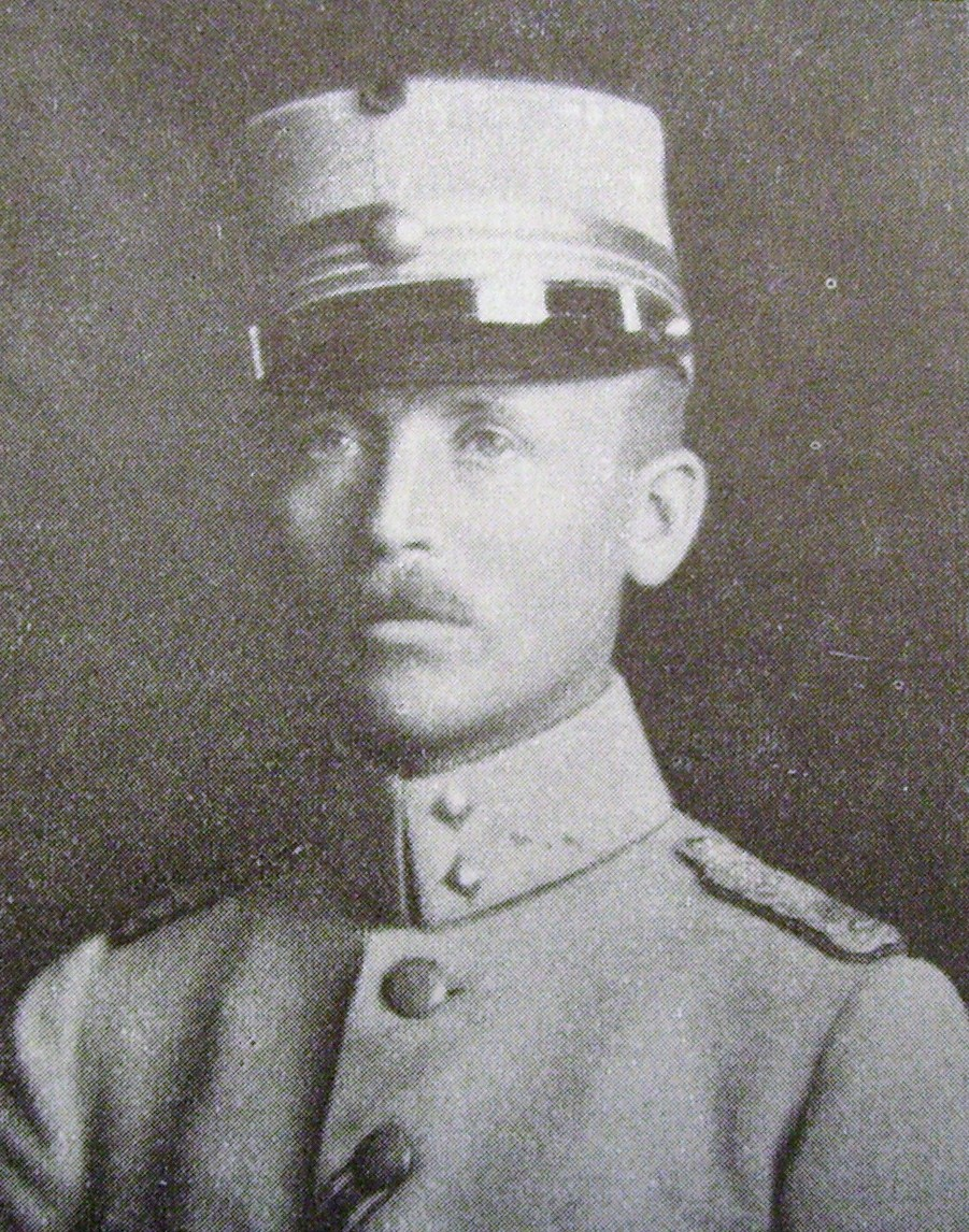 Picture of Henry Peyron, Swedish general major